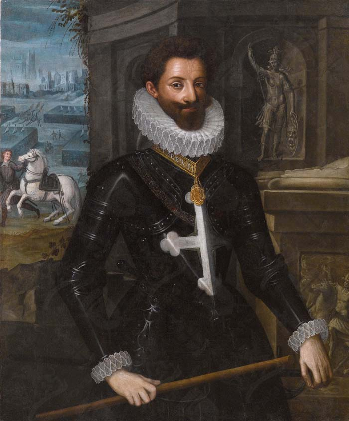 Portrait of Charles Emmanuel I, Duke of Savoy (1562-1630)